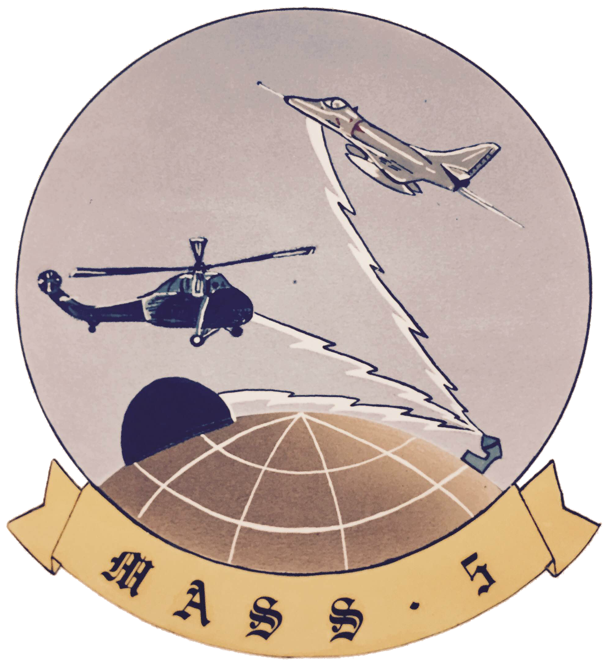 Squadron insignia for Marine Air Support Squadron 5 (MASS-5) which was active from 1966-1969 and headquartered at Marine Corps Air Station El Toro, California.